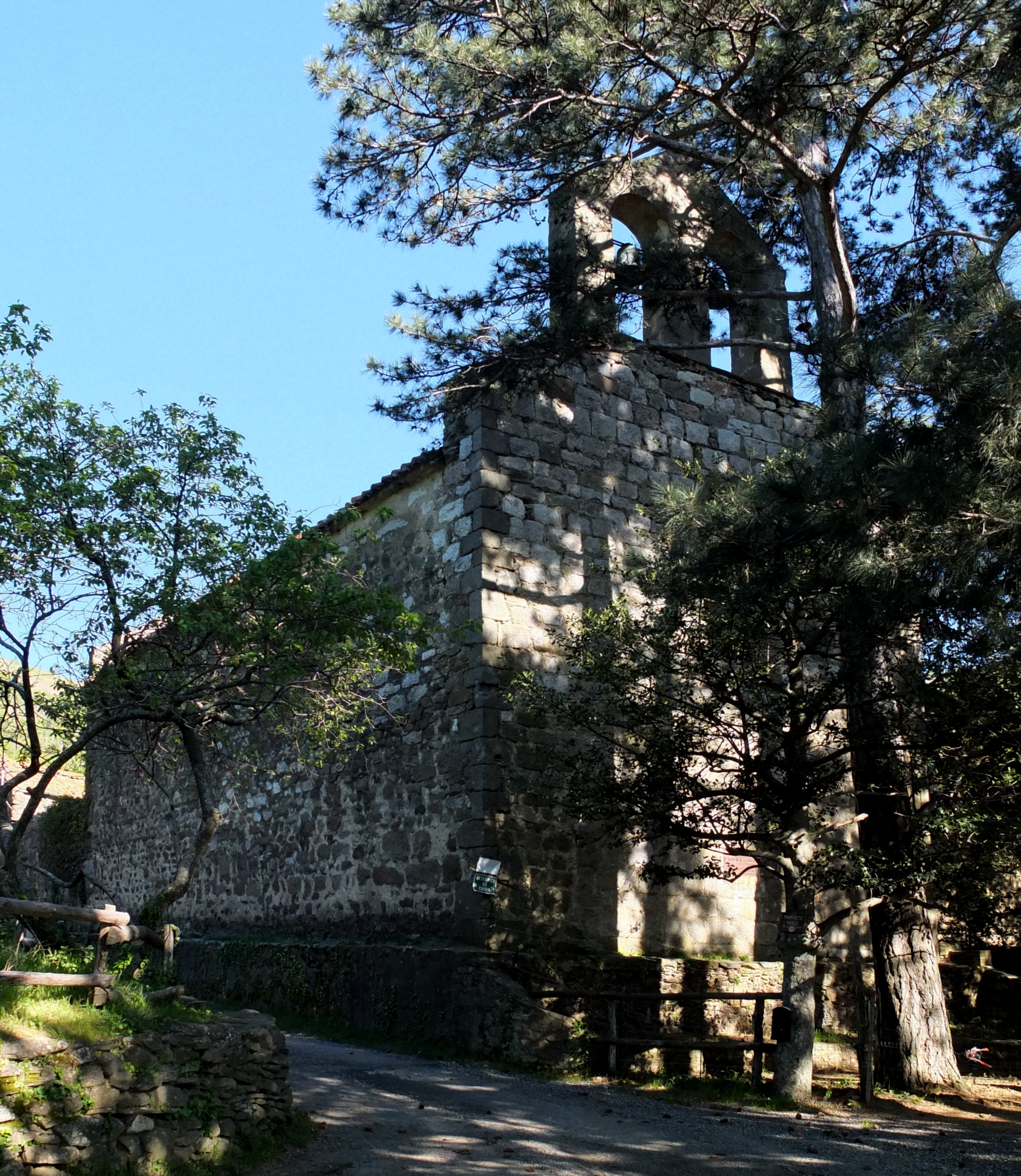 "Saint Martin de l'Albère", L'Albère, Roussillon, France (view northwest).